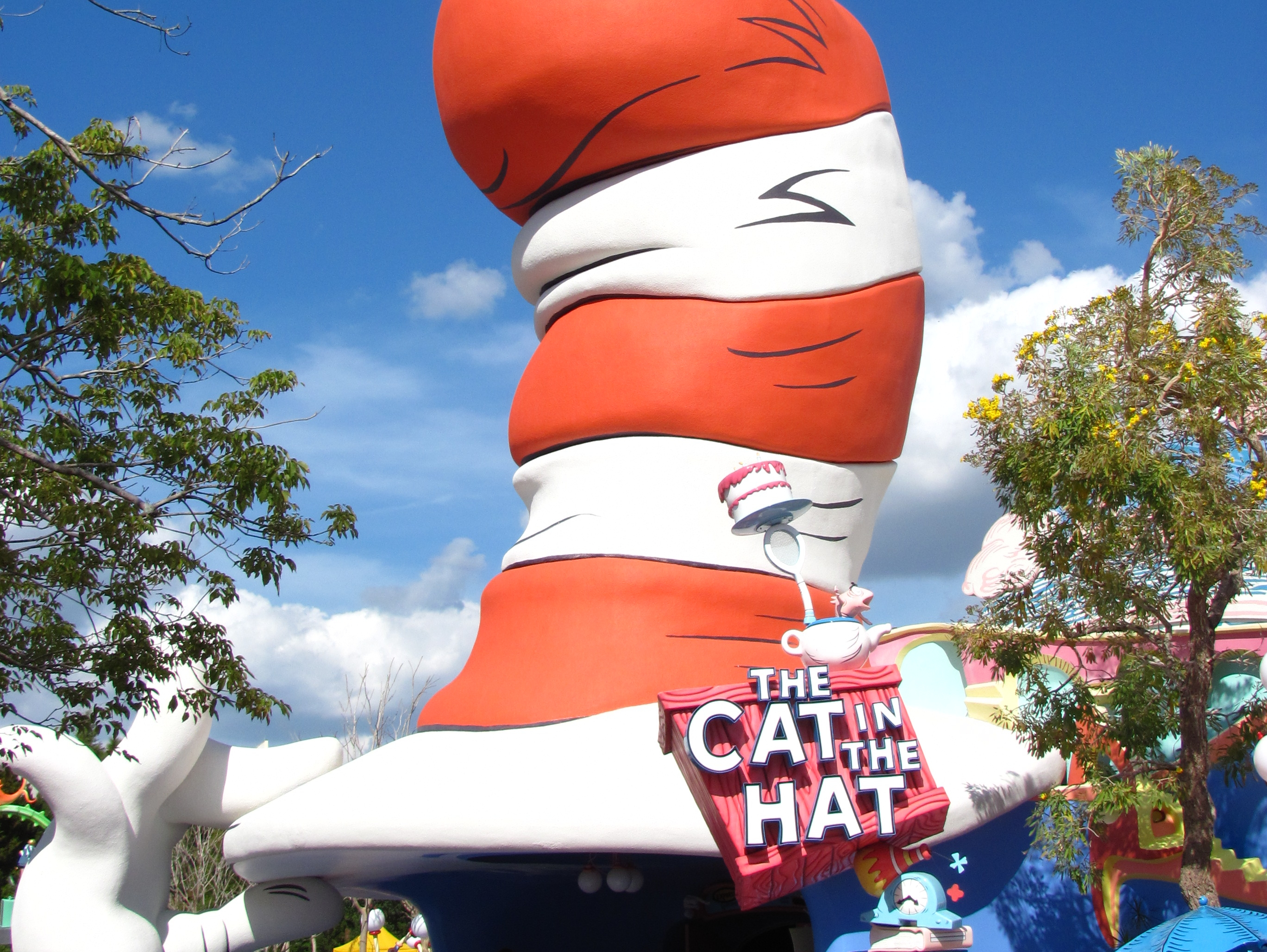 The Cat in the Hat